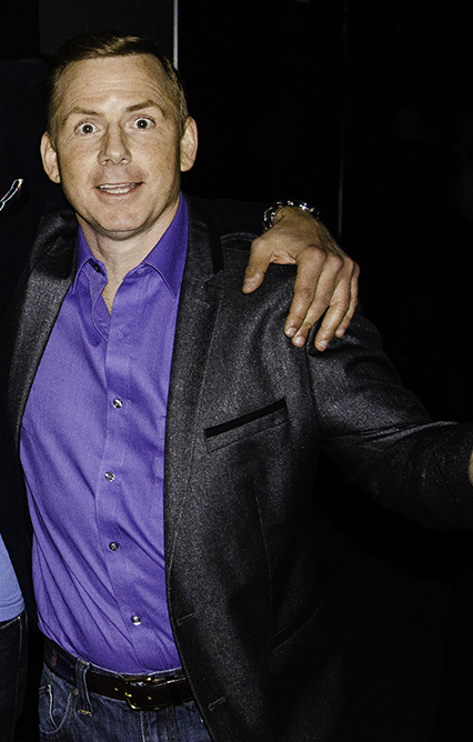 Image from Comics Come Home 2013 event with Robert Kelly, John Mulaney, Gary Gulman, Tom Cotter (l-r)